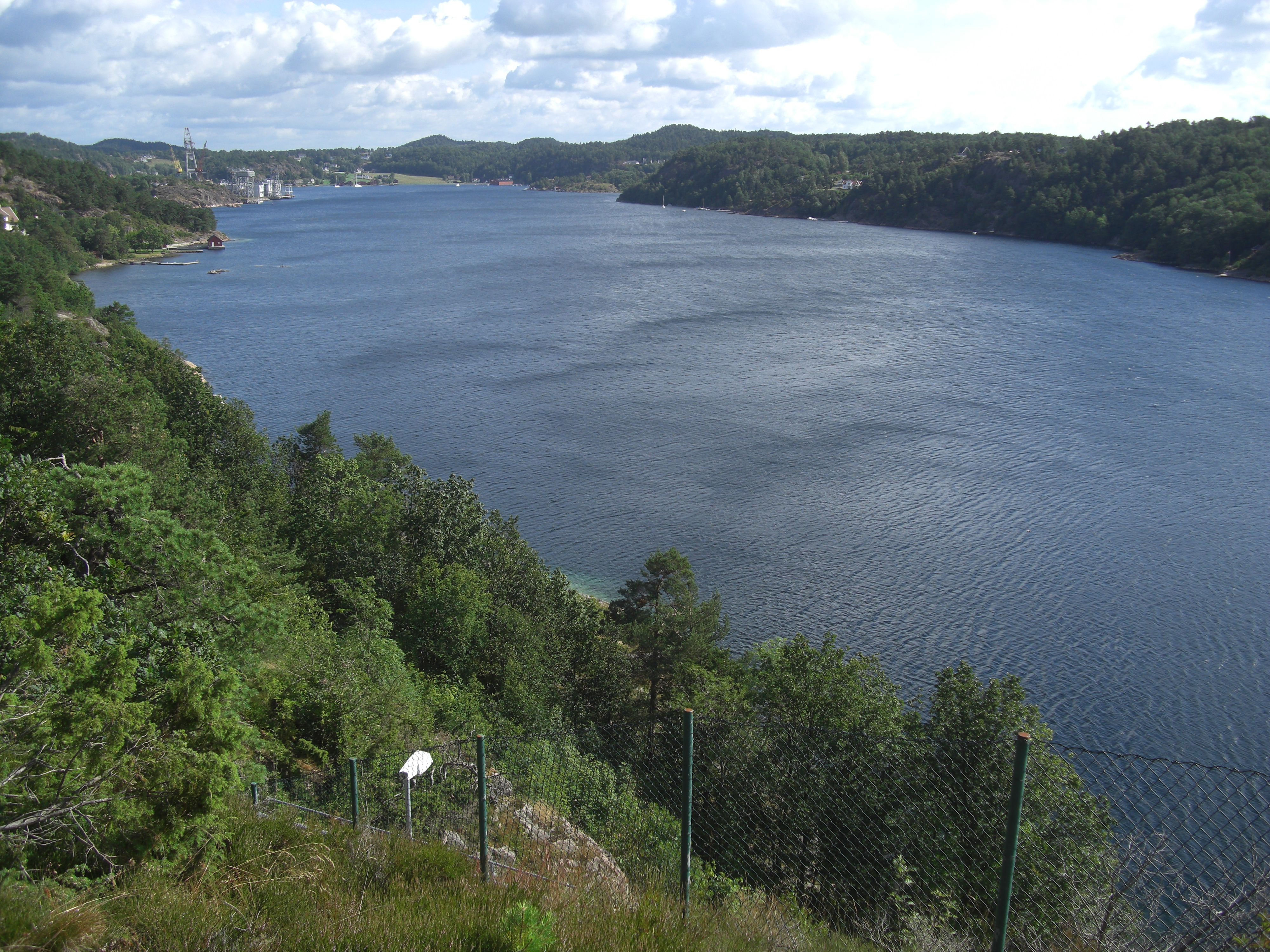 Vikkilen